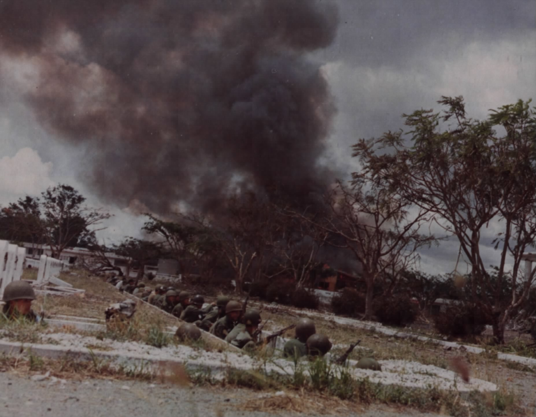 Members of the Tan Son Nhut Defense Force and the 7th Airborne Battalion, 1st Airborne Division, are pinned down by heavy enemy sniper fire in the French Cemetery, located on the western perimeter of the Tan Son Nhut Air Base.